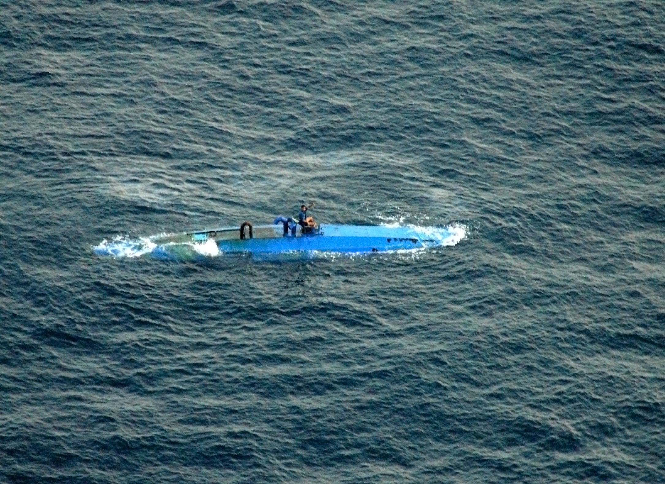 070819-O-XXXXX-001 PACIFIC OCEAN (Aug. 19, 2007) - Coordination between U.S. Coast Guard, Homeland Security Customs and Border Protection, and crews from a U.S. Navy P-3C Orion and the frigate USS Dewert (FFG 45), resulted in the seizure of an estimated $352 million of cocaine during an interdicted and boarding operation on a self-propelled semi-submersible vessel in the Eastern Pacific, Sunday, Aug 19. Photo courtesy U.S. Customs and Border Protection (RELEASED)